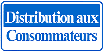 Logo of Distribution aux Consommateurs